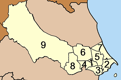 Map of Chaiya district, Surat Thani province, Thailand, with the communes (tambon) numbered. Talad Chaiya (ตลาดไชยา) Phumriang (พุมเรียง) Lamet (เลม็ด) Wiang (เวียง) Thung (ทุ่ง) Pa We (ป่าเว) Ta Krop (ตะกรบ) Mo Thai (โมถ่าย) Pak Mak (ปากหมาก)